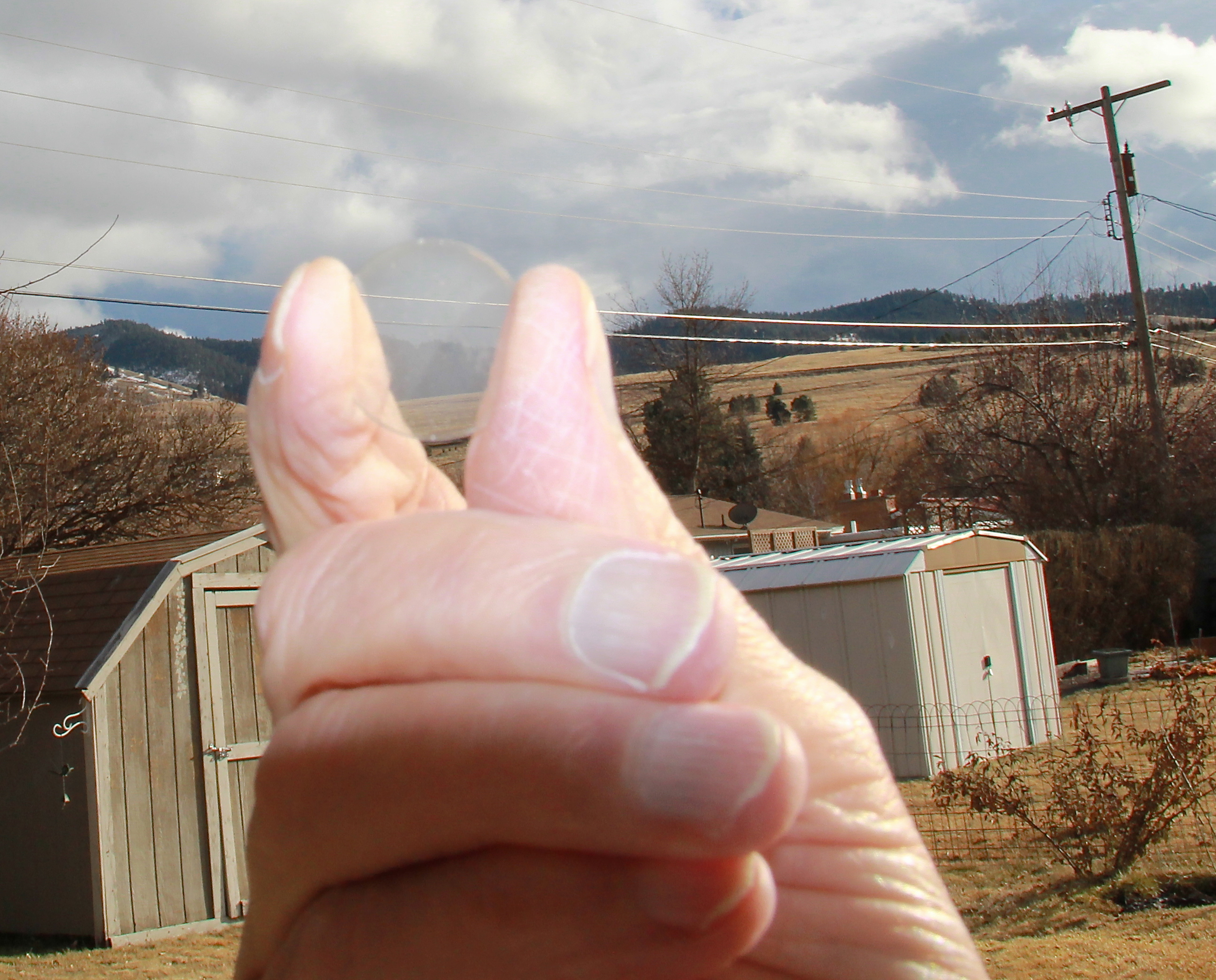 Richard C. Anderson, inventor of Yttralox holds up a sample of the transparent ceramic he invented in 1965. Photo taken at his home in Missoula, MT, 2014.